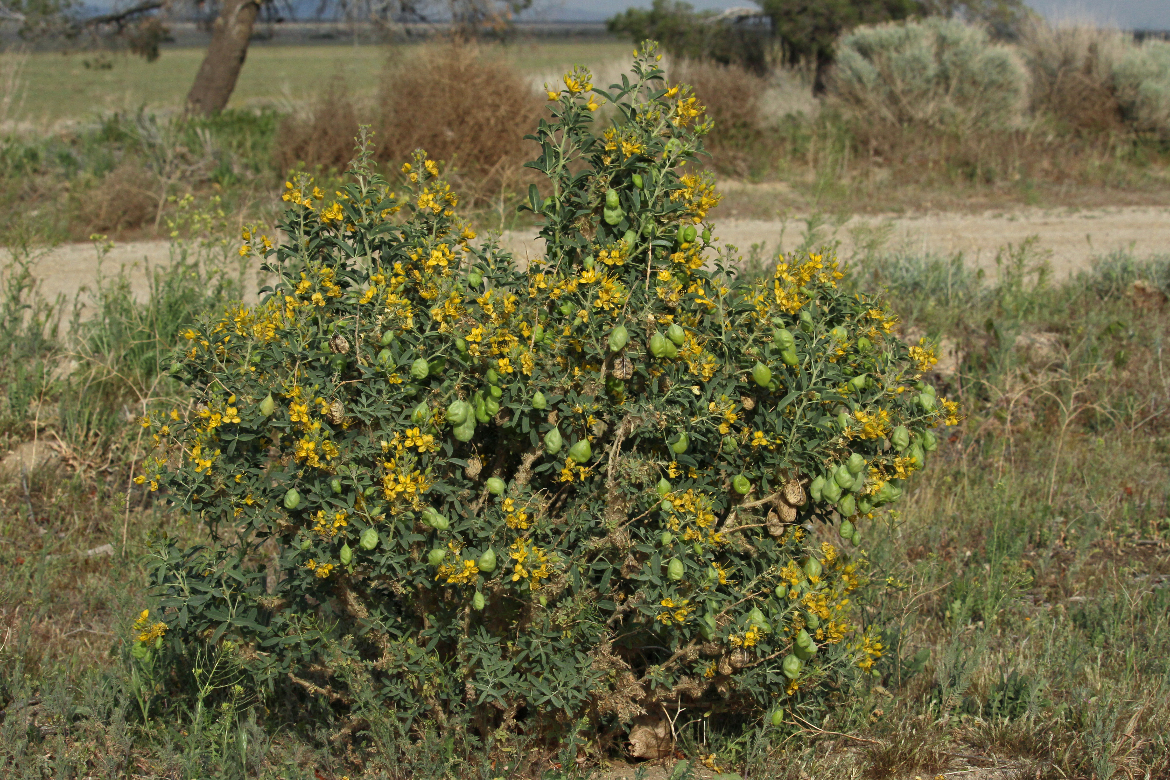 Bladderpod Identification by: Linda Edwards and Vern Benhart Viewpoint location: Holiday Lake, west of Lancaster, California Viewpoint elevation: 882 meter (2893 ft) Location source: Garmin GPSmap 60CSx Location Datum: WGS84